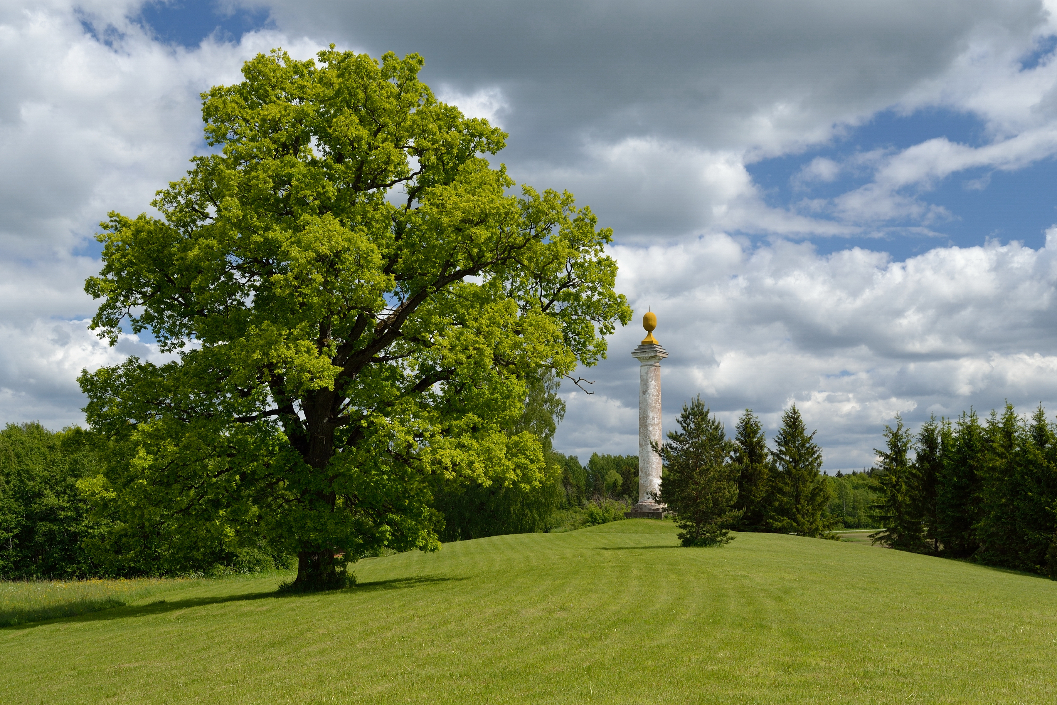 Monument was built in 19. century supposedly to the wars of Alexander I and Napoleon